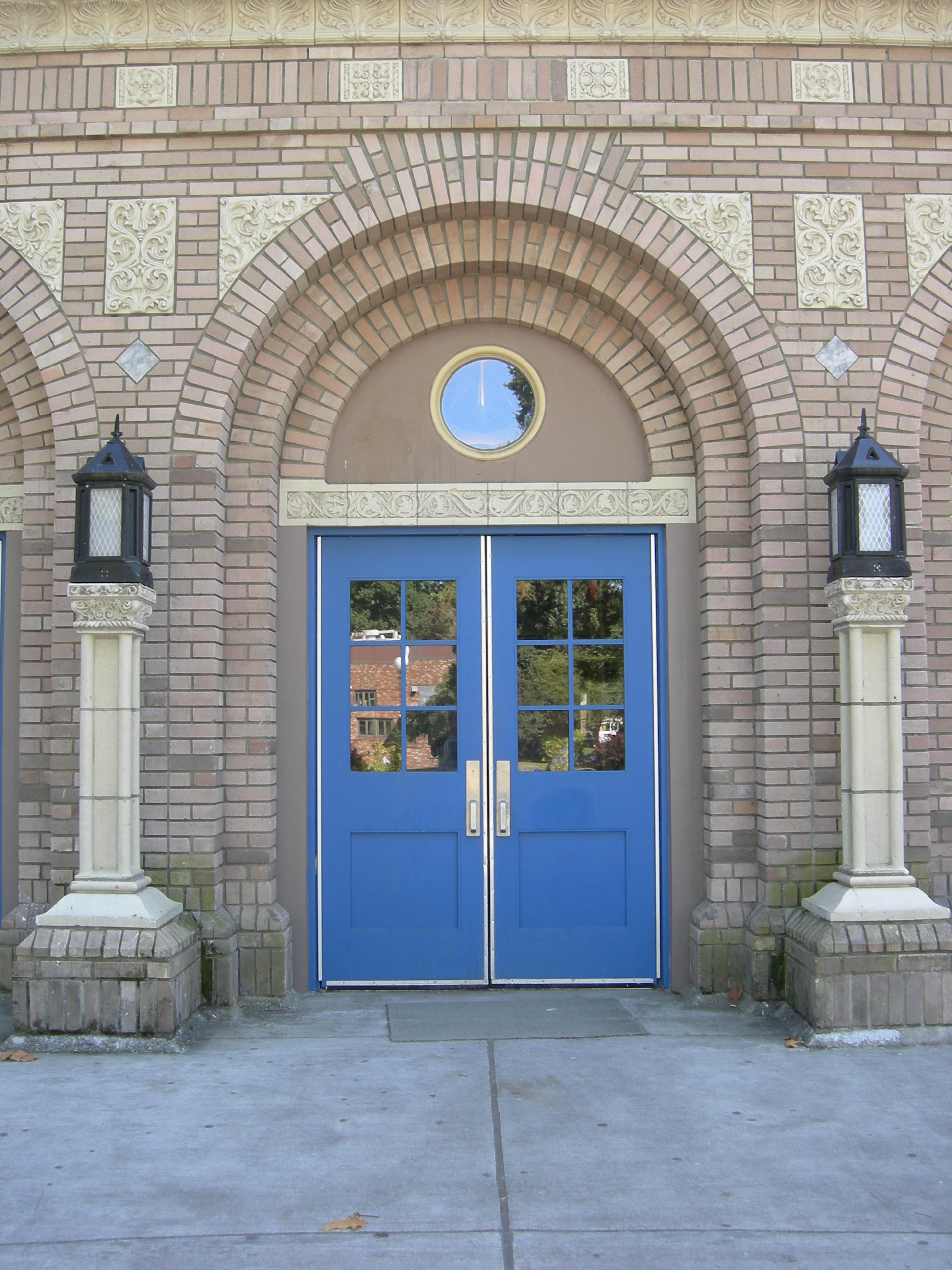 Main doors, West Seattle High School, Seattle, Washington.